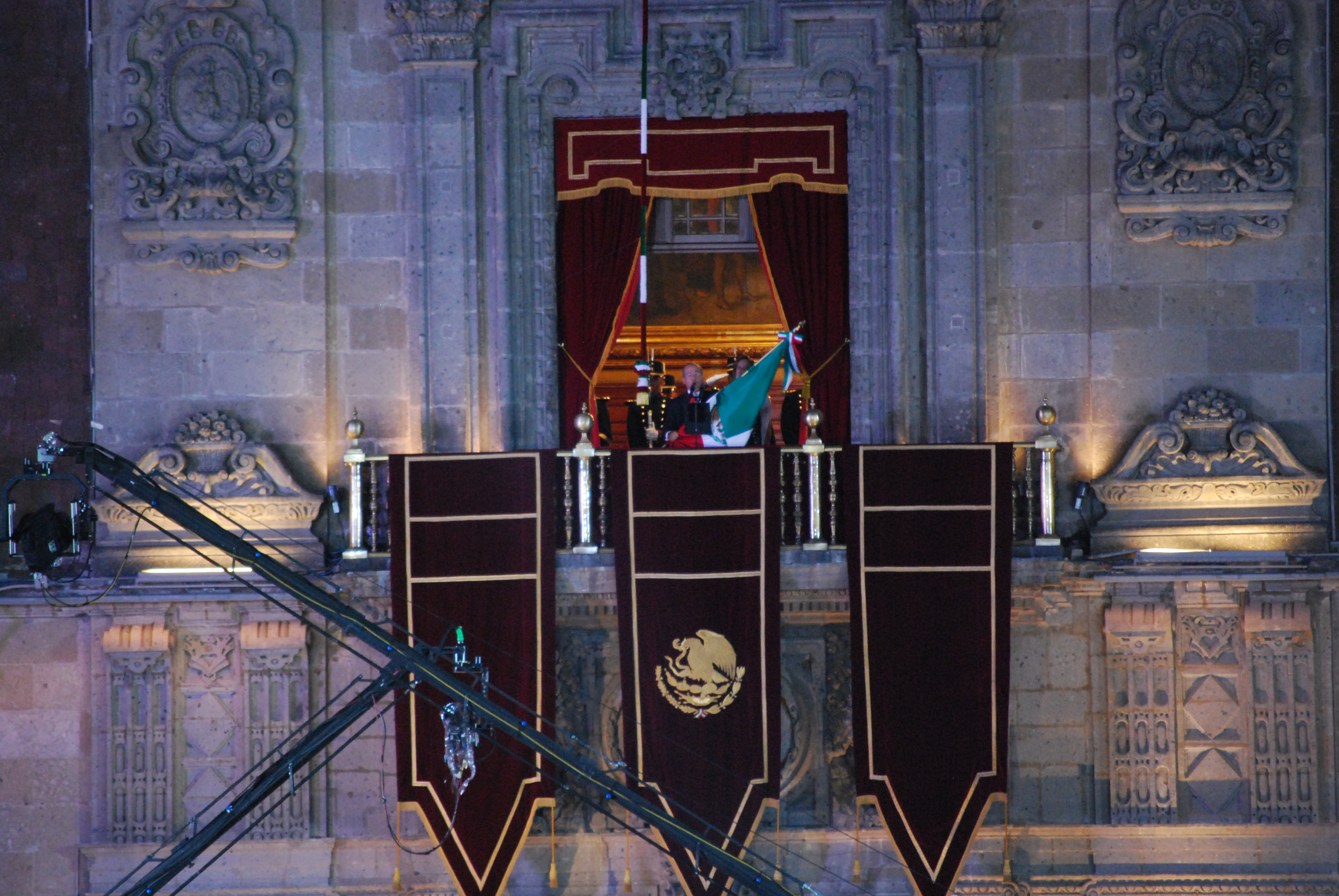 The "Grito" delivered by Felipe Calderon at the National Palace in 2010